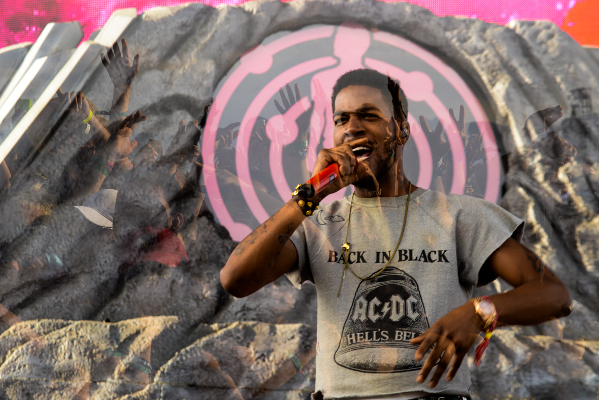 Kid Cudi performing at the Coachella Valley Music and Arts Festival on April 19, 2014 in Indio, California.